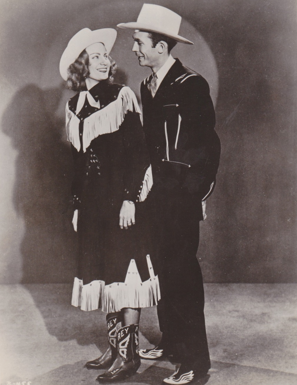 Hank and Audrey Williams publicity portrait for MGM Records.